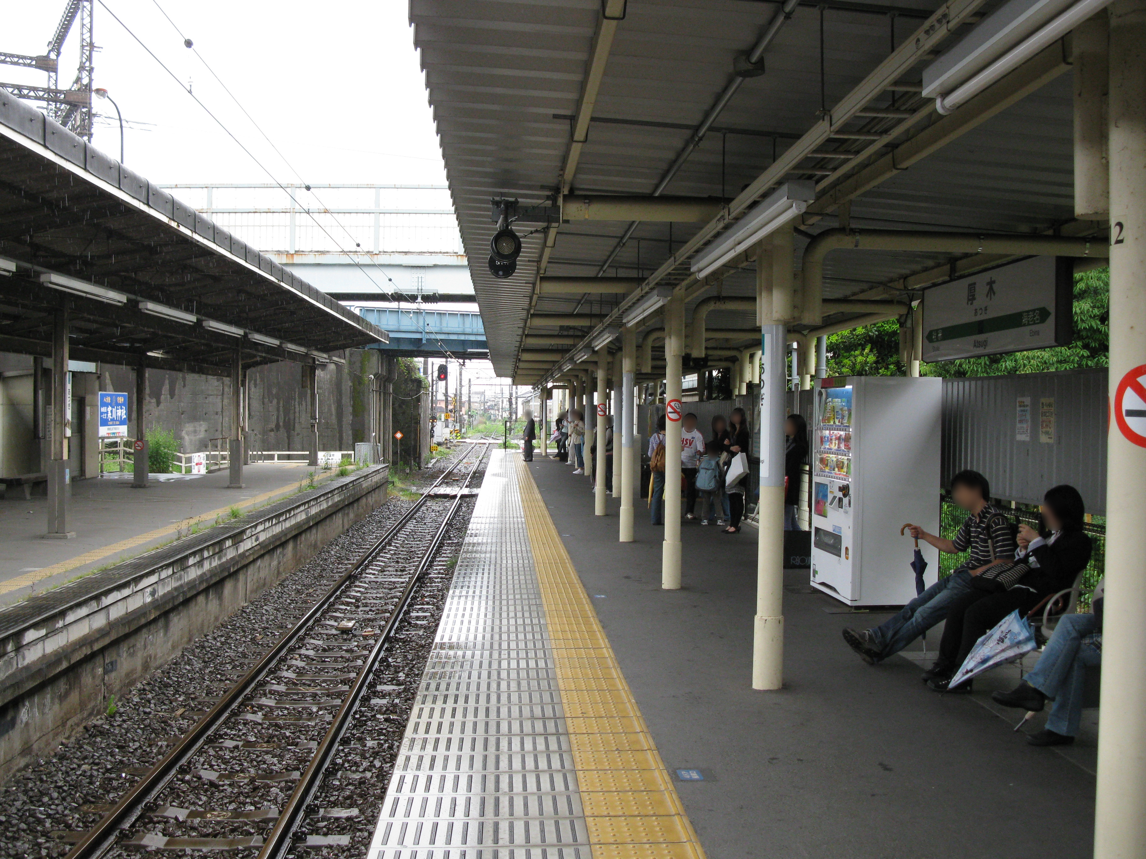 The platform at Atsugi Station, East Japan Railway(JR East) Sagami Line